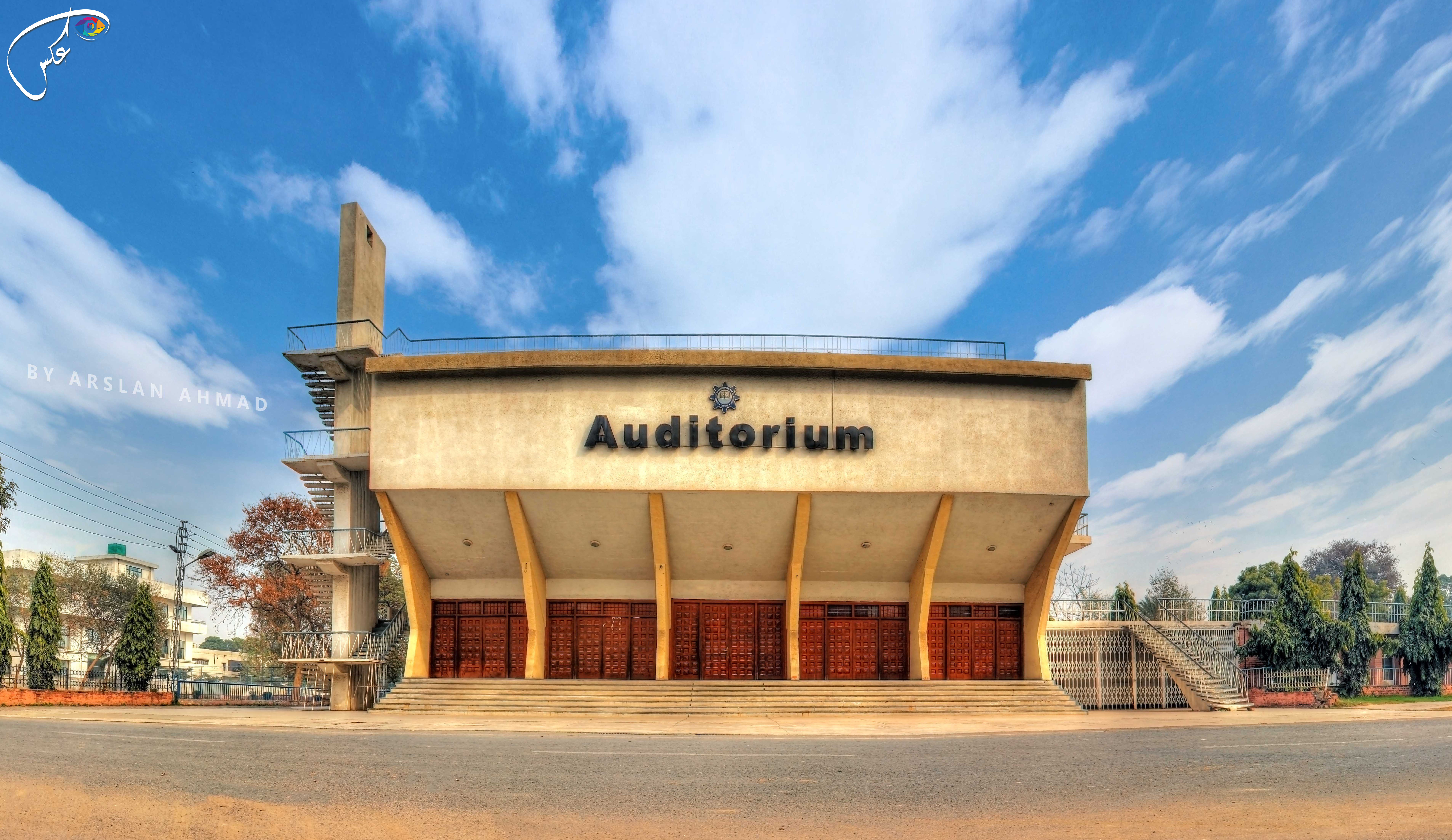 Sports Complex, aka Old Auditorium, UET Lahore